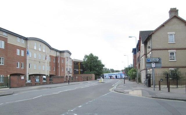 Oxpens Road - viewed from Osney_Lane